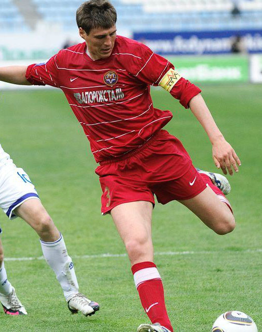 Dmytro Nevmyvaka, Ukrainian footballer, during the game for Metalurh Zaporizhya